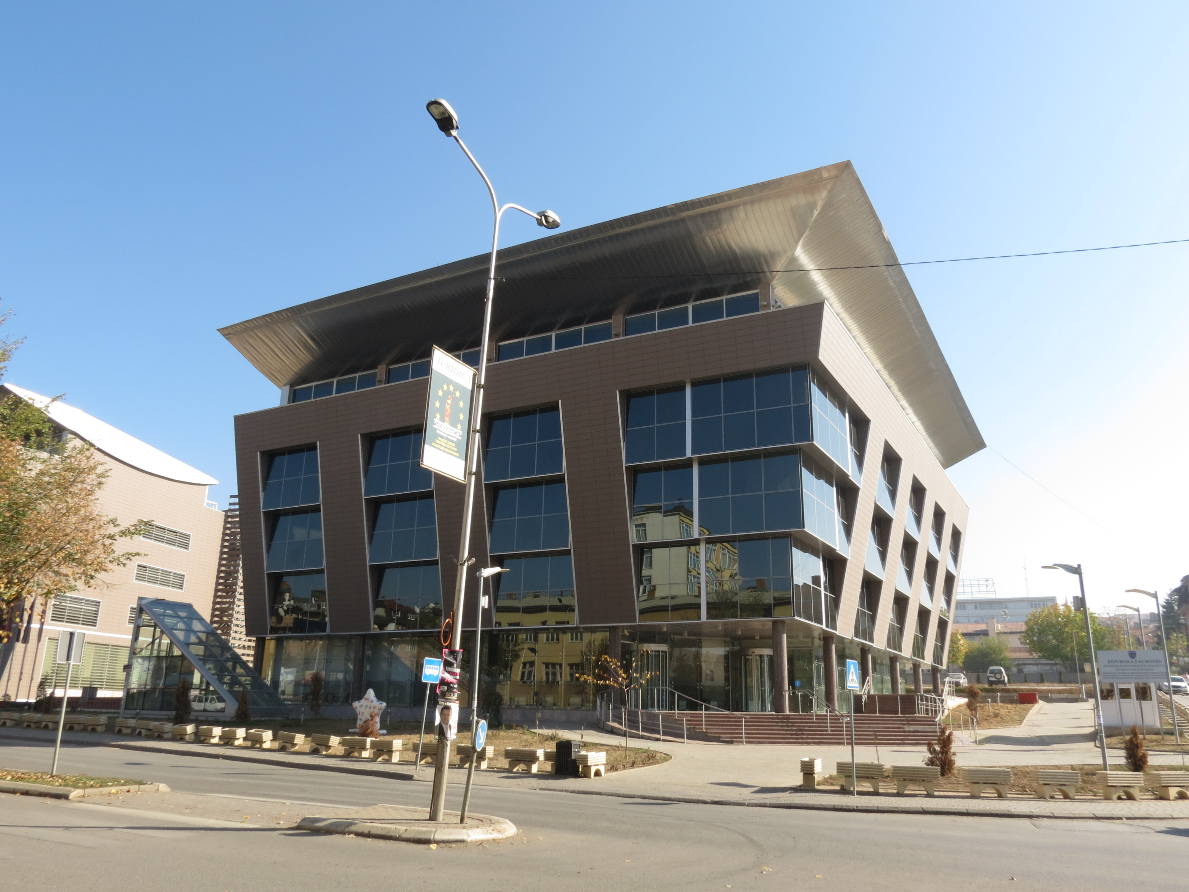 Ministry of Education, Science and Technology of Kosovo on Agim Ramadani Street (Rr. St. Ul. Agim Ramadani) in Pristina.